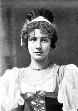 Photo of Florence Perry 1896